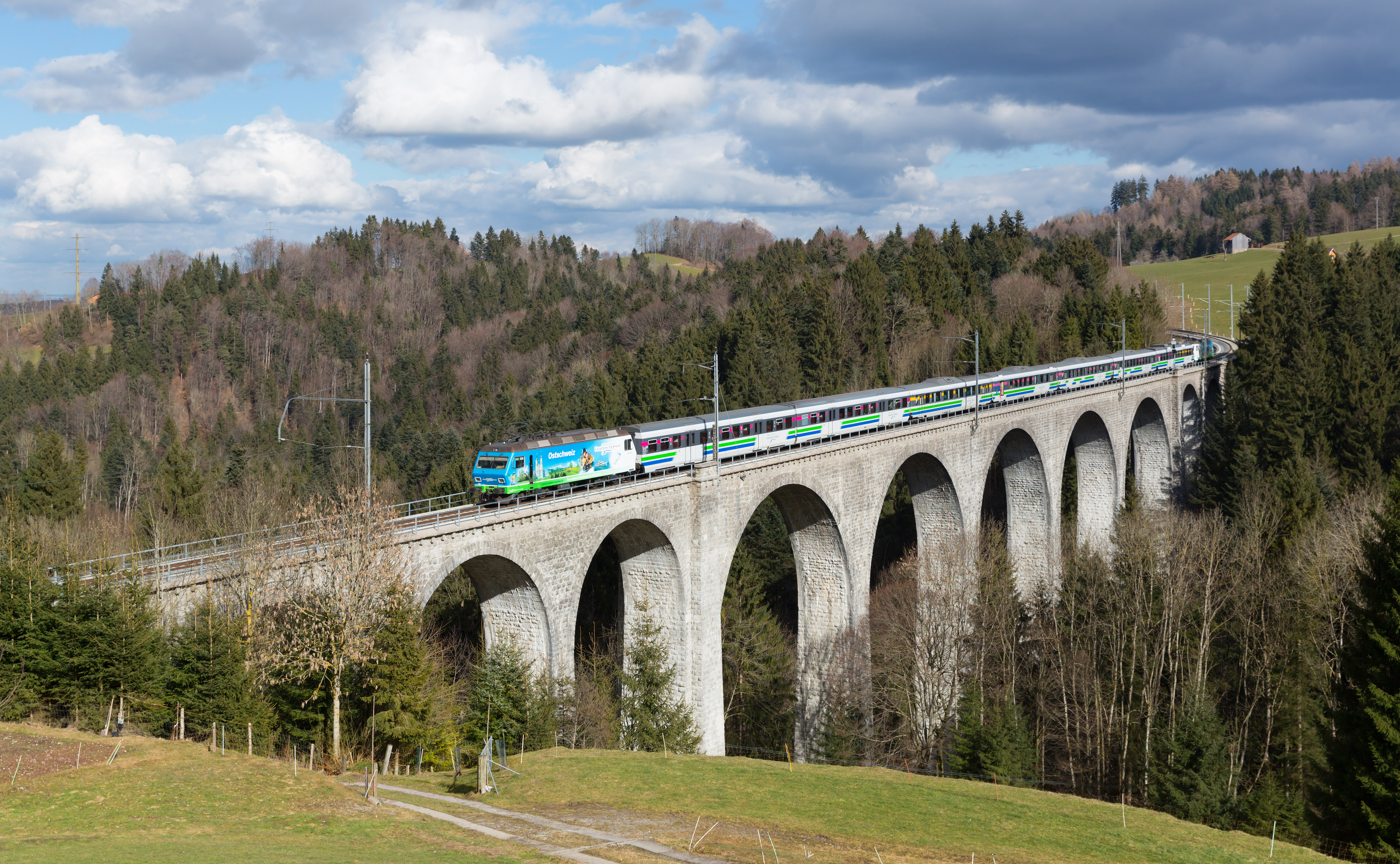 Two SOB Re 456 with a Voralpenexpress cross the Wissbach viaduct near Degersheim, Switzerland. The train consists of two former BT RBDe 566 "Triebzug" coaches (both have a special coupler at one end, hence two of them), four Revvivo coaches and a NPZ control car.